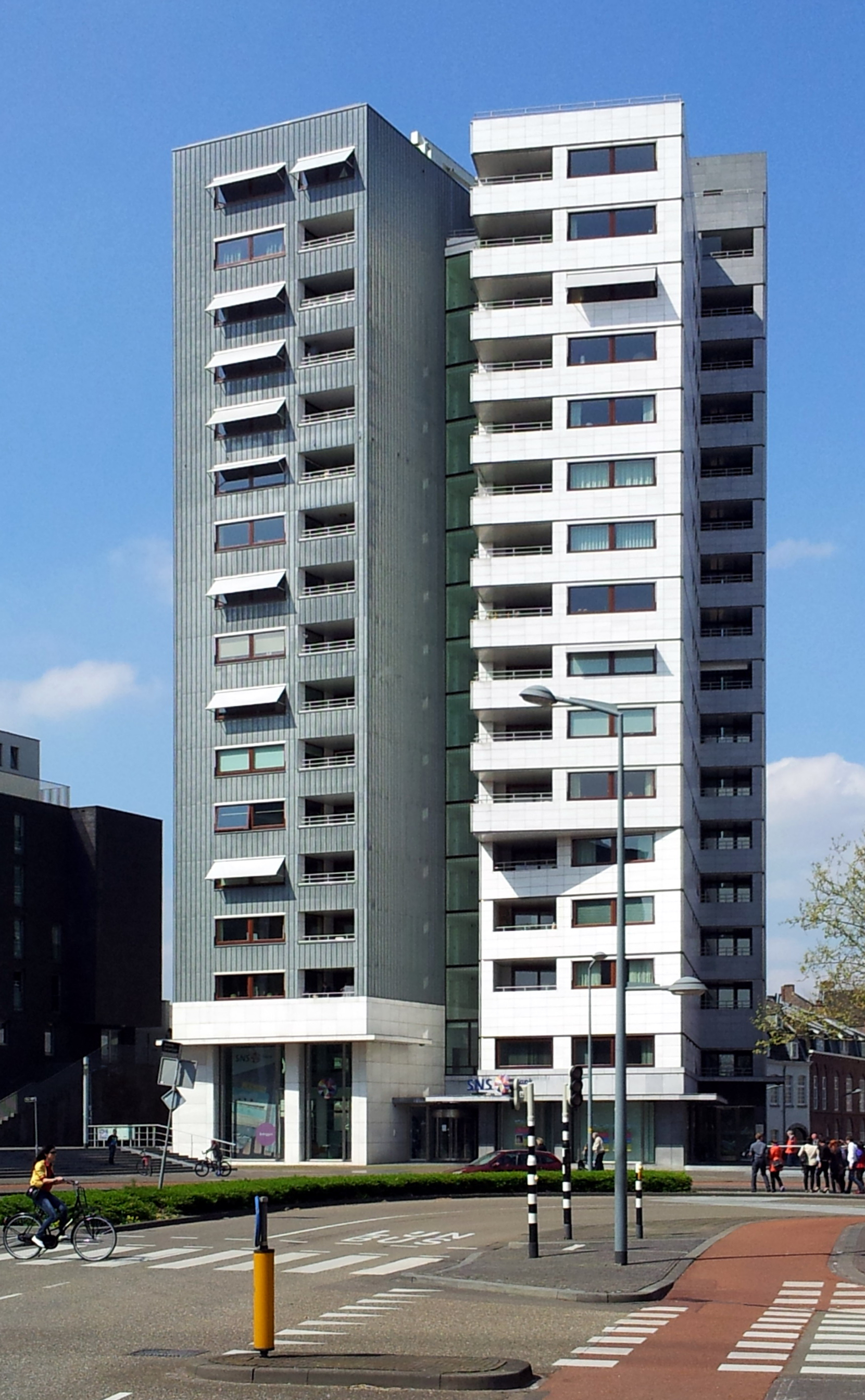 Maastricht, the Netherlands. View of 'Siza's Tower', one of the buildings on Avenue Céramique, the main avenue in the newly developped Céramique district, designed by Álvaro Siza.